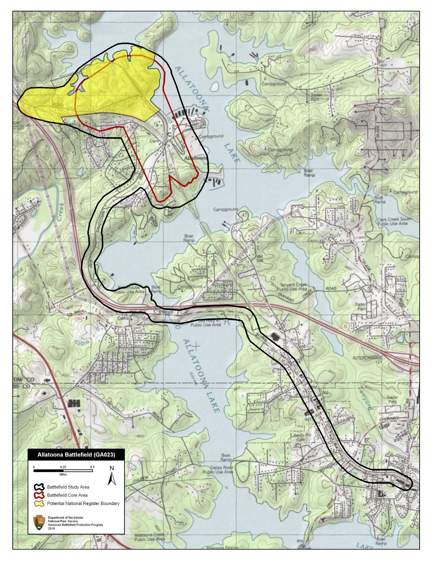 Map of battlefield core and study areas. The ABPP made significant changes to the 1993 Study and Core Areas. The Study Area now includes the routes used by French’s troops while raiding behind the main Union lines. The Core Area was expanded to reflect the Confederate artillery's roll in the battle.